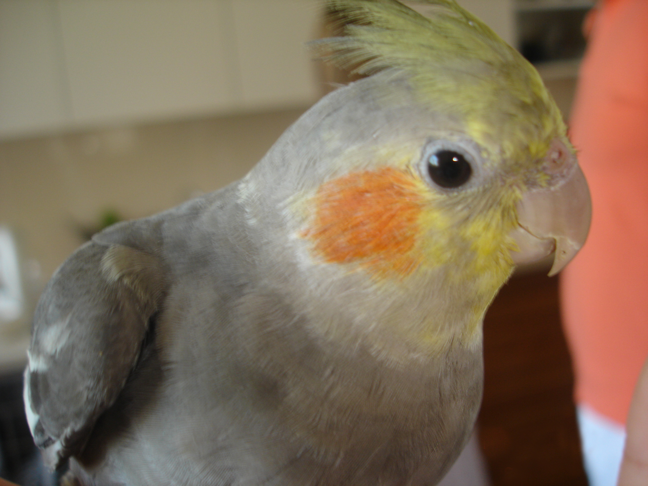 cockatiel, Nymphicus hollandicus (Kerr, 1792)